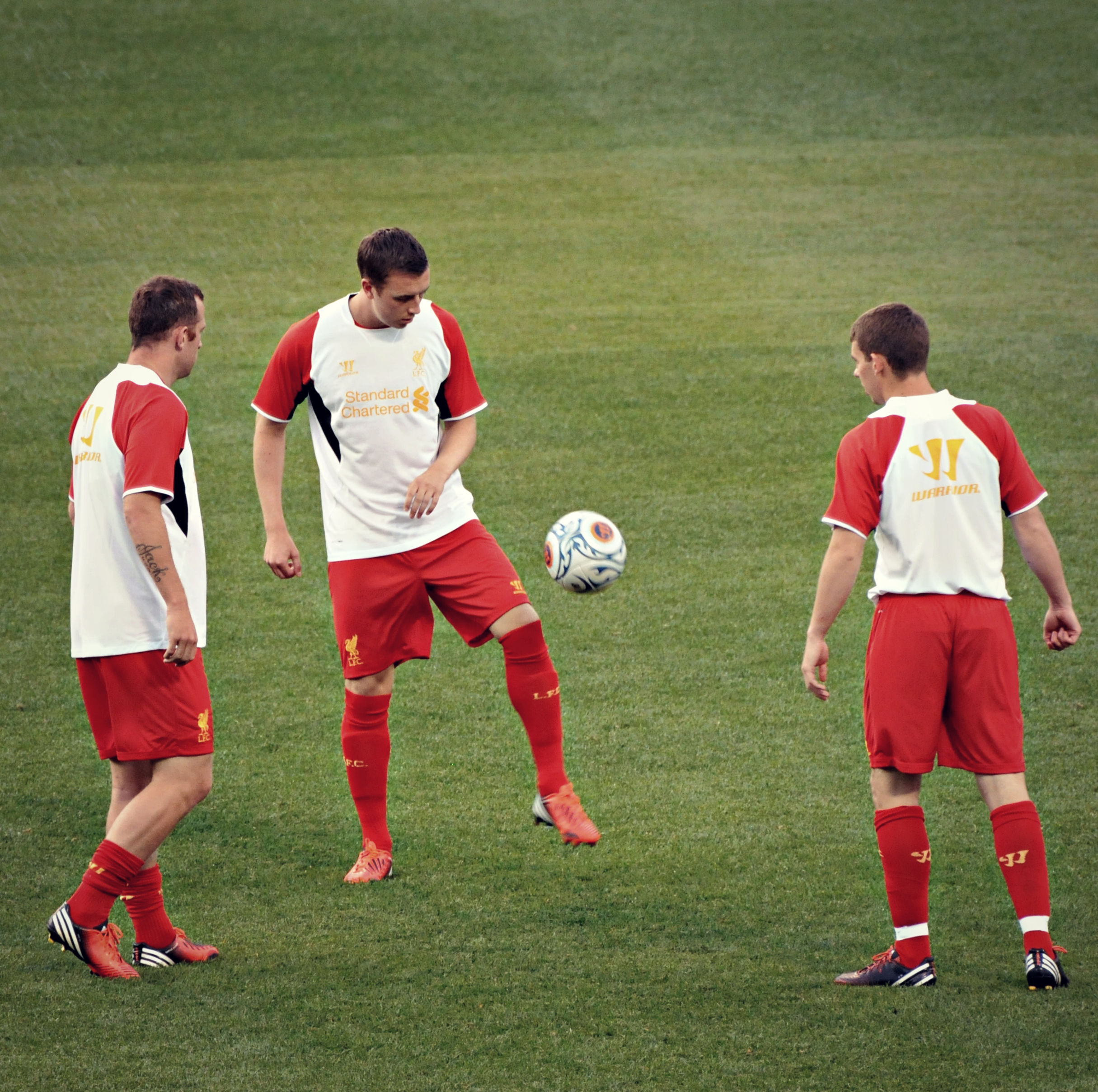 Charlie Adam, Danny Wilson and Jon Flanagan warming up.